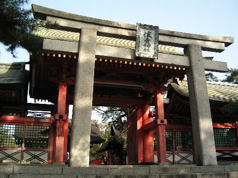 Torii at the Sumiyoshi shrine in Osaka